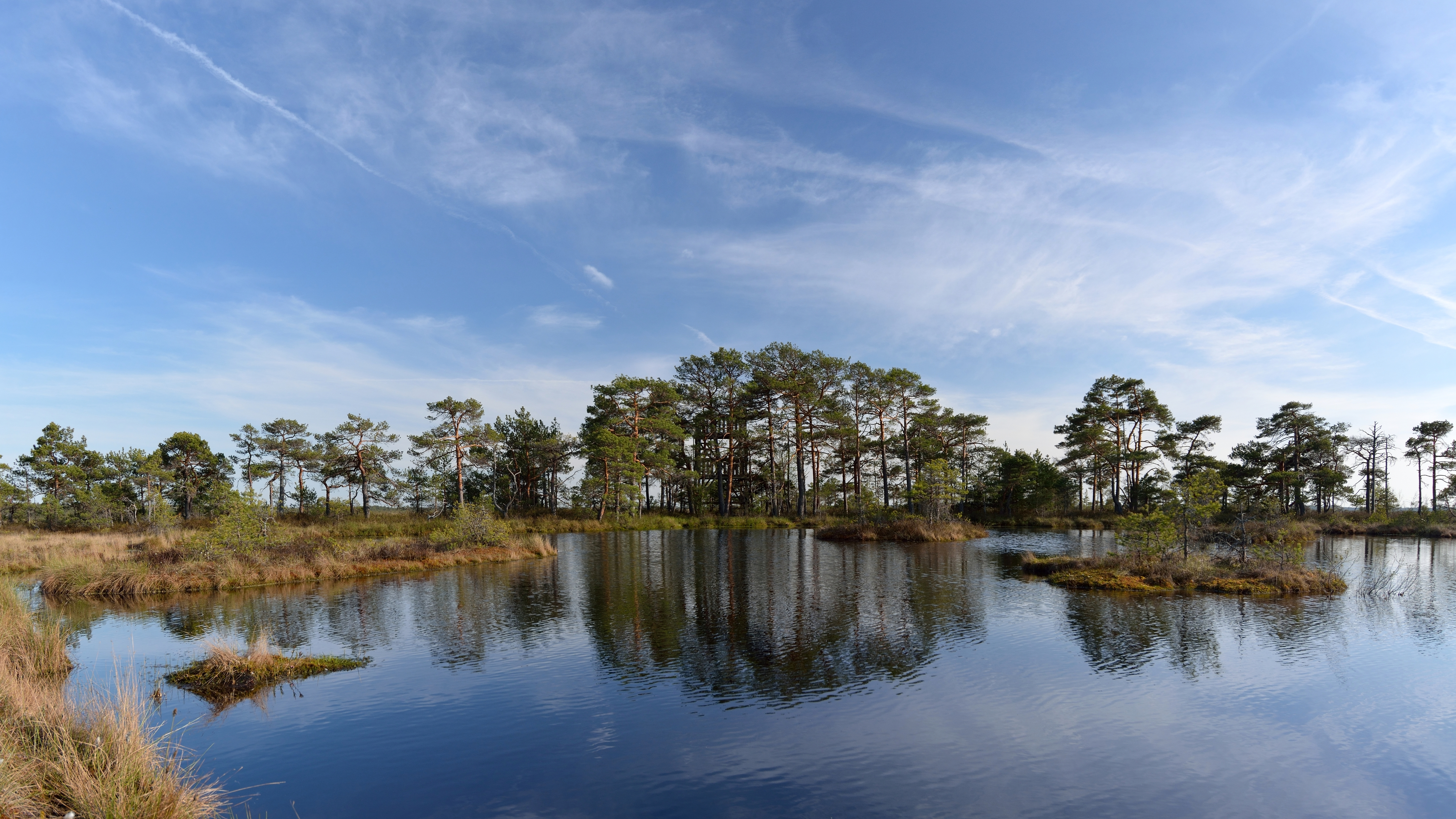 Marimetsa bog lake.